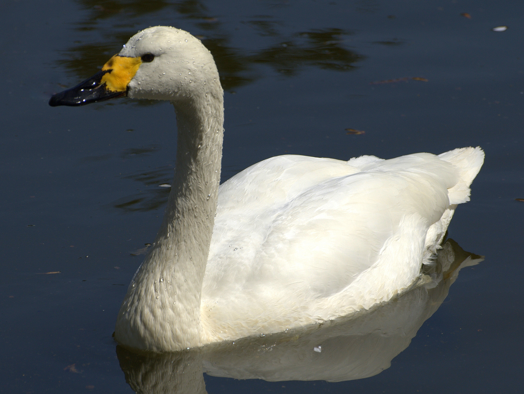 Tundra Swan in Warsaw ZOO